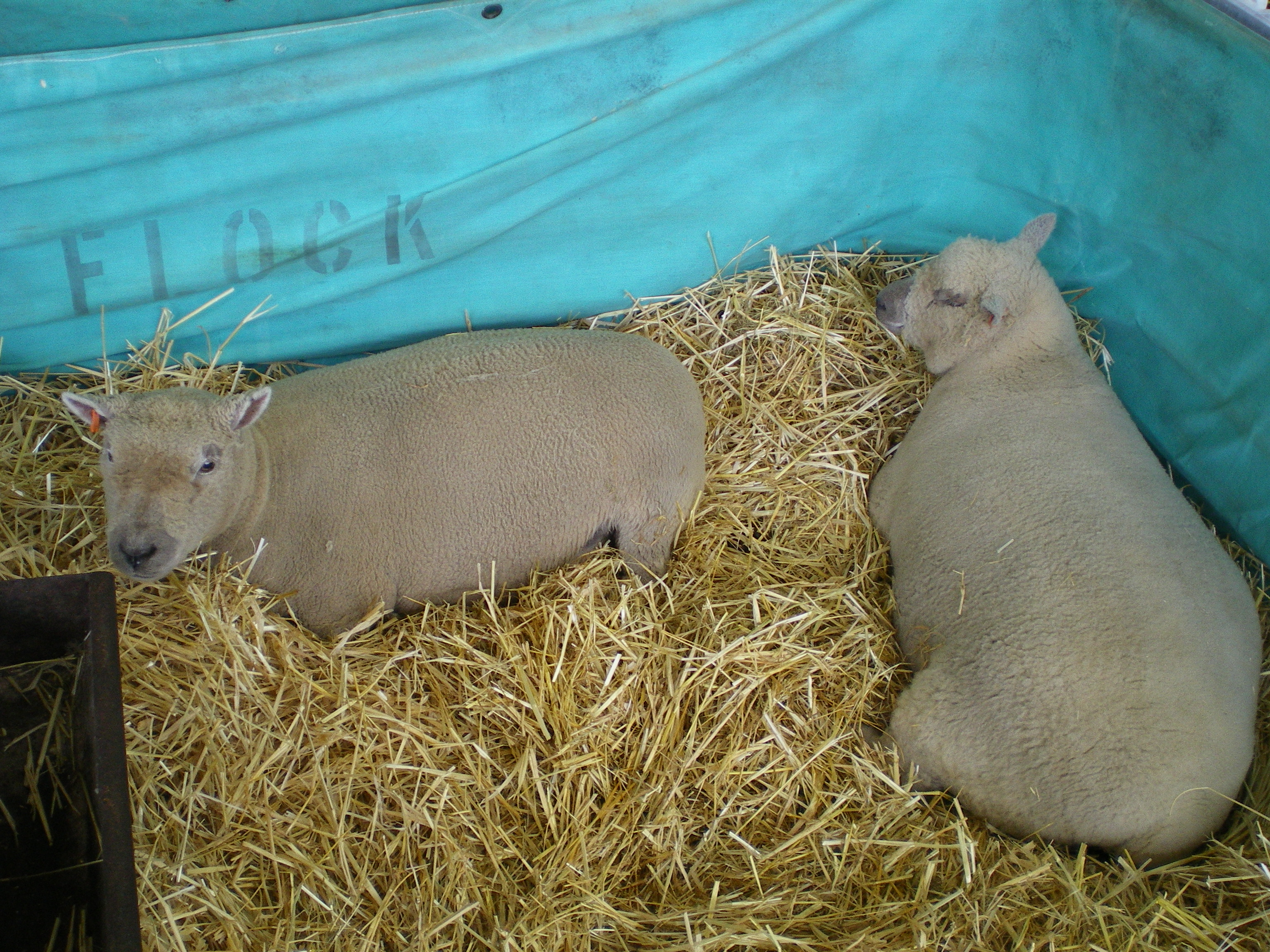 Southdown sheep (Great Yorkshire Show)